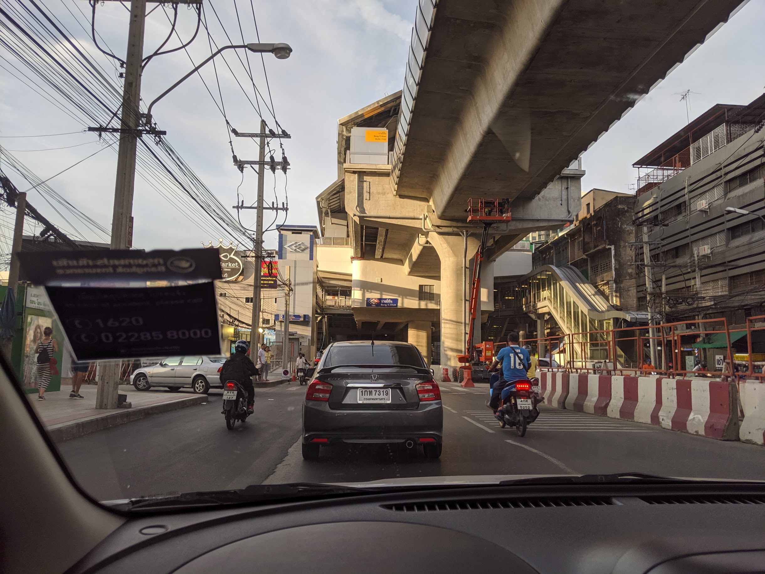 This is an image of the Bang Yi Khan MRT Blue Line station in Bangkok, Thailand in 2019, under construction for an expected completion in 2020. Photo taken from street level on Charan Sanitwong Road.